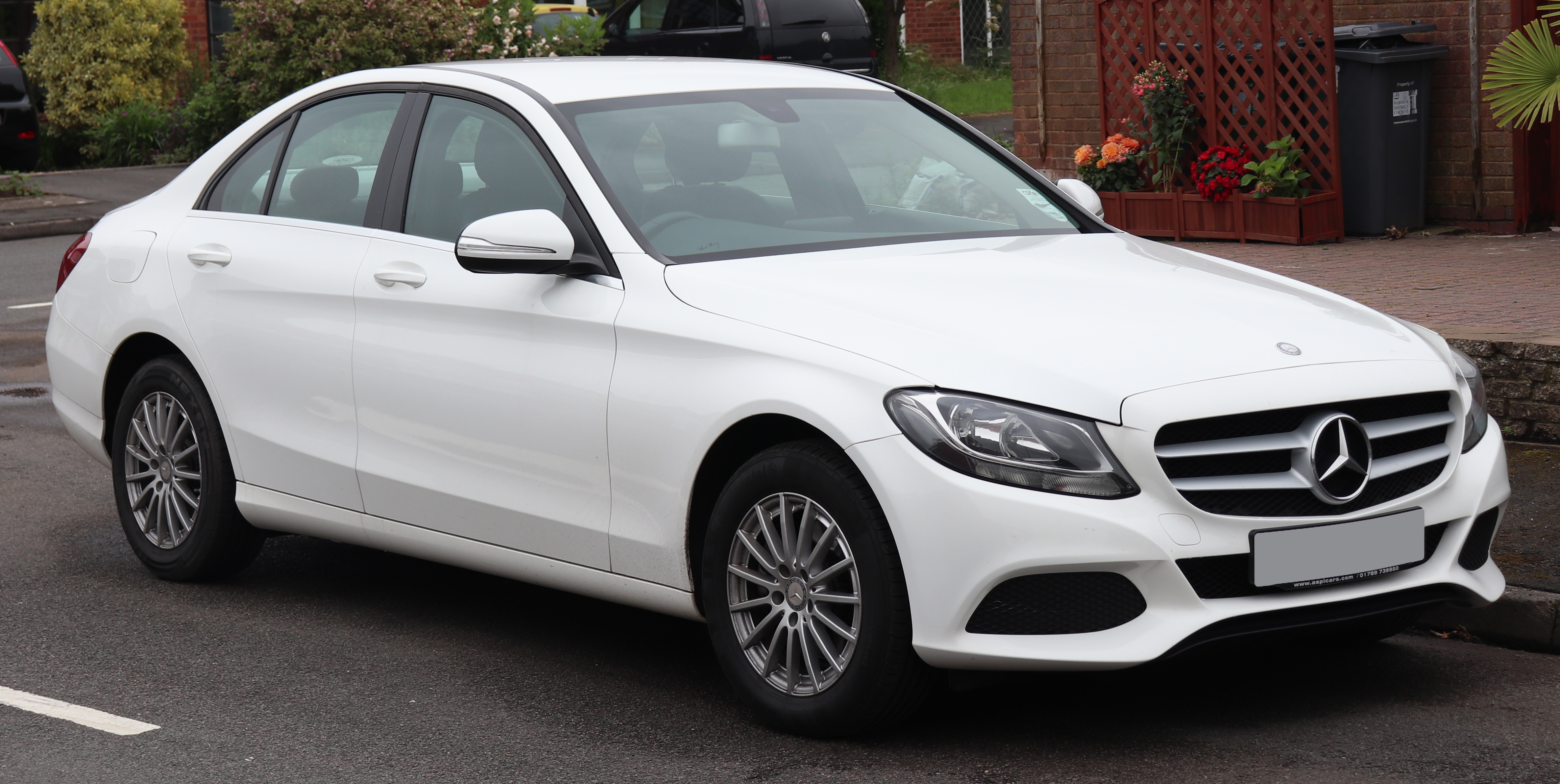 2014 Mercedes-Benz C200 SE Executive Automatic 2.0 Front Taken in Warwick